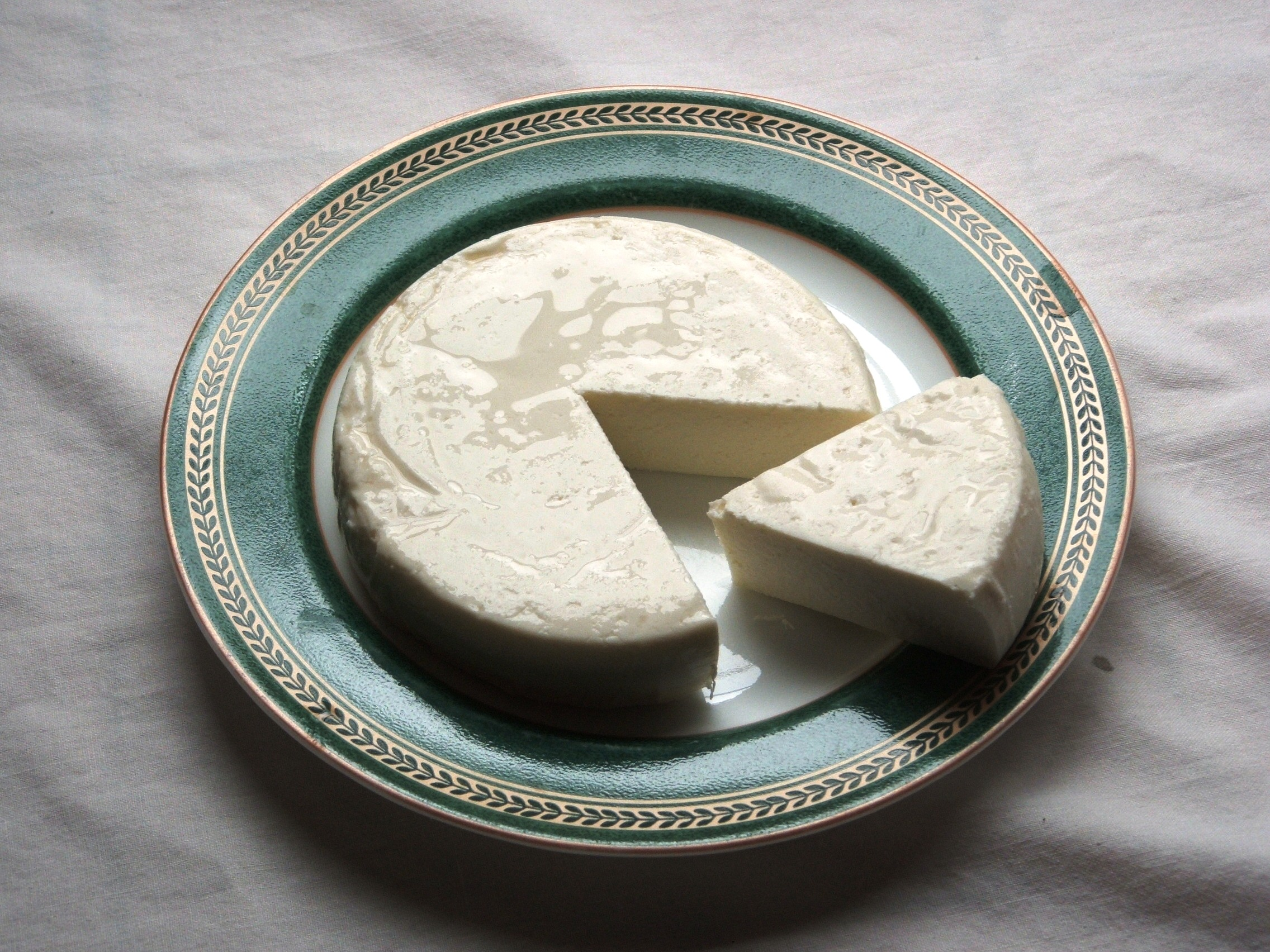 Queso fresco - an unaged white cheese originating in Spain and now common in Mexico and other countries in the Americas. This version is made by Rancho Grande, of San Jose, California, U.S.A.